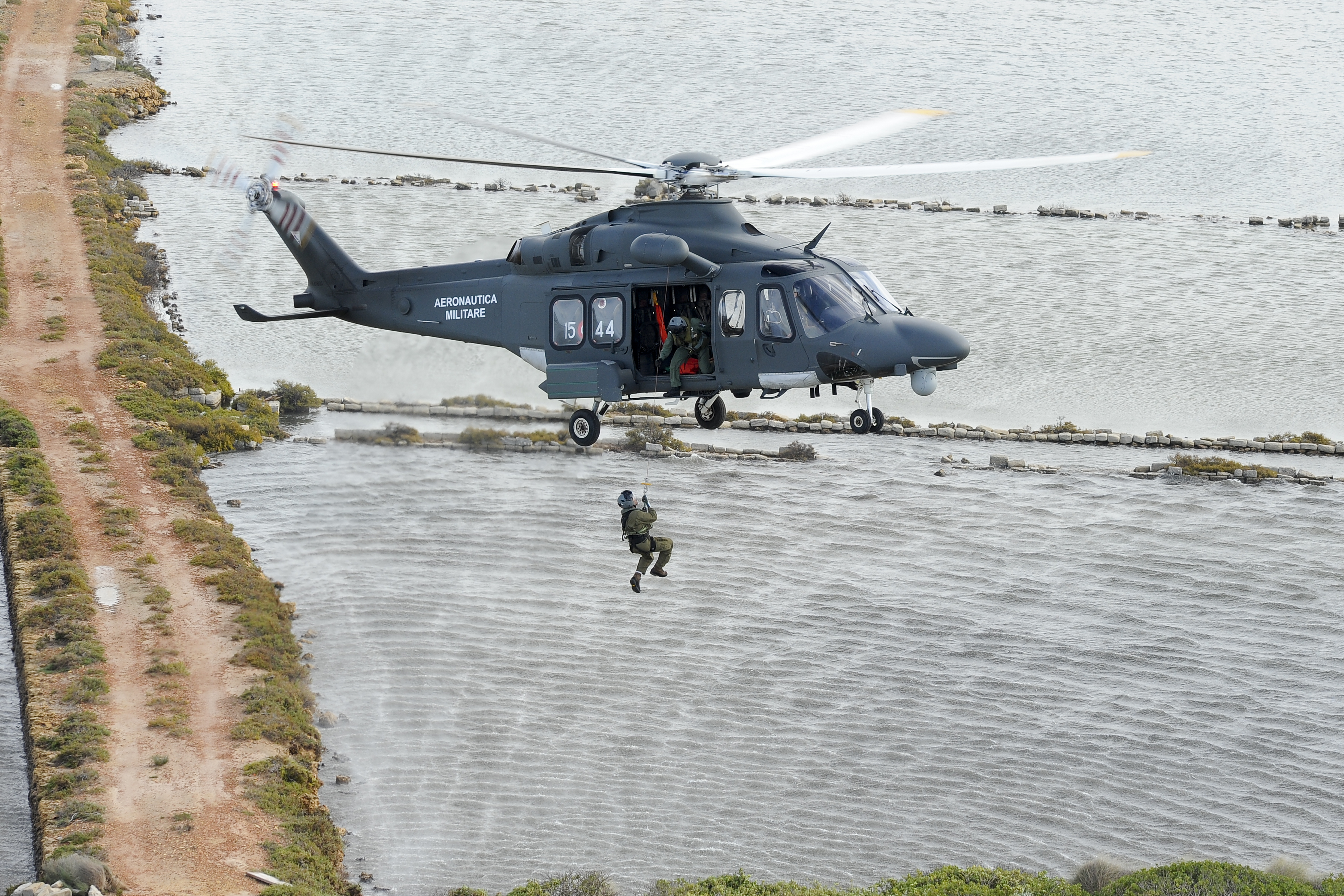 HH139 of It.A.F. 82nd CSAR during recovery operations within TJ exercise NATO photo by Antonio STELLATO